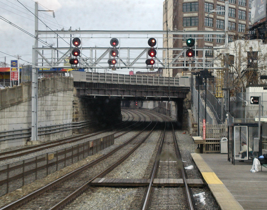 Distant Signal bridge to 16th St Jct on SEPTA Main Line at North Broad station.